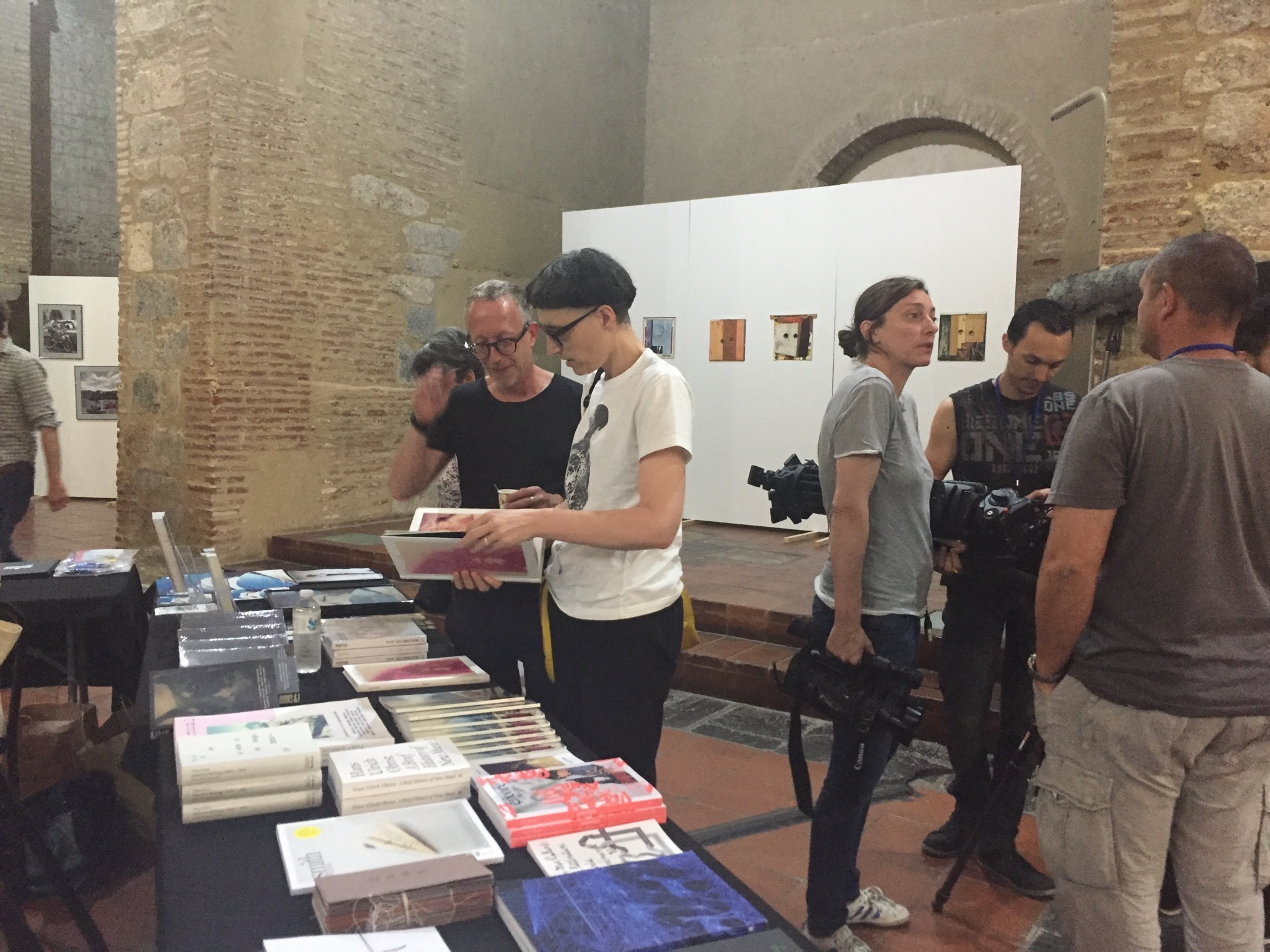 Vue des stands